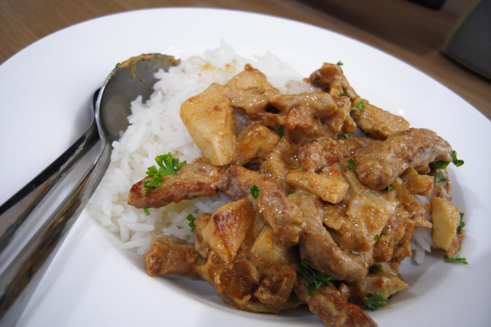 Beef Stroganoff